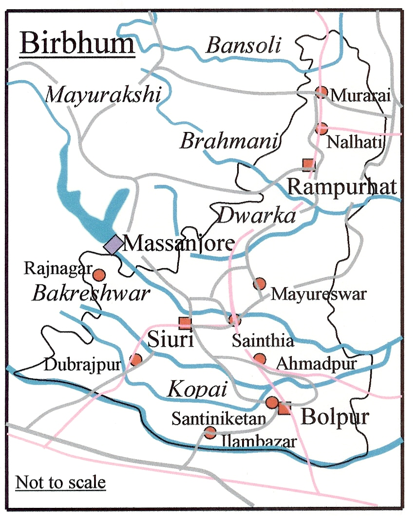 Own map specially drawn for use in Wikipedia